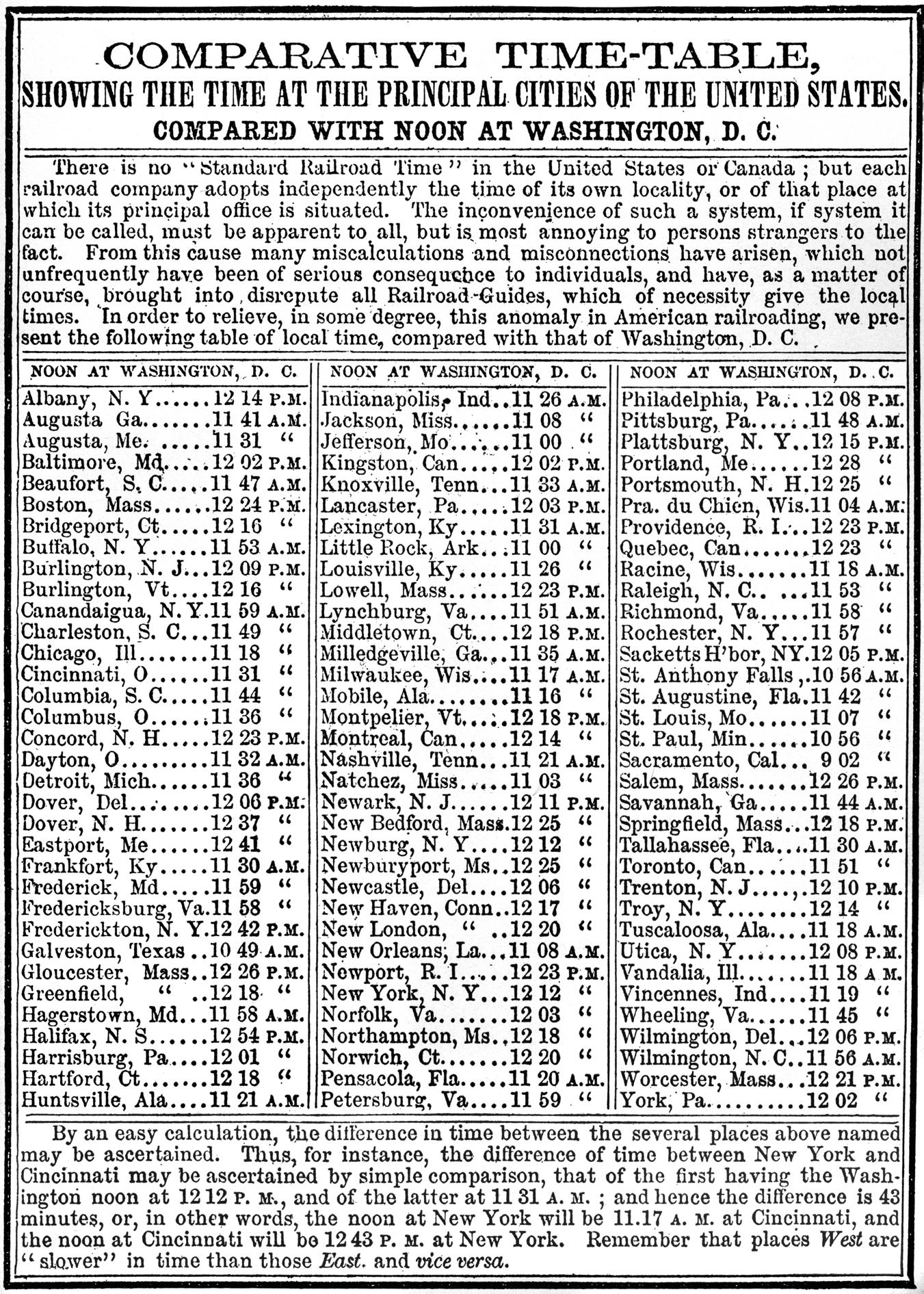 This shows local times in approximately 100 American cities at the time of publication (1857) for the convenience of rail passengers who had to allow for different times in planning their journies. Time zones were not introduced until 1883.